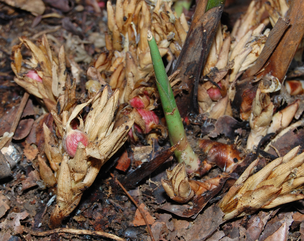 Amomum compactum, young shoot and fruits. Sirnarasa, Sukabumi, West Java, Indonesia.